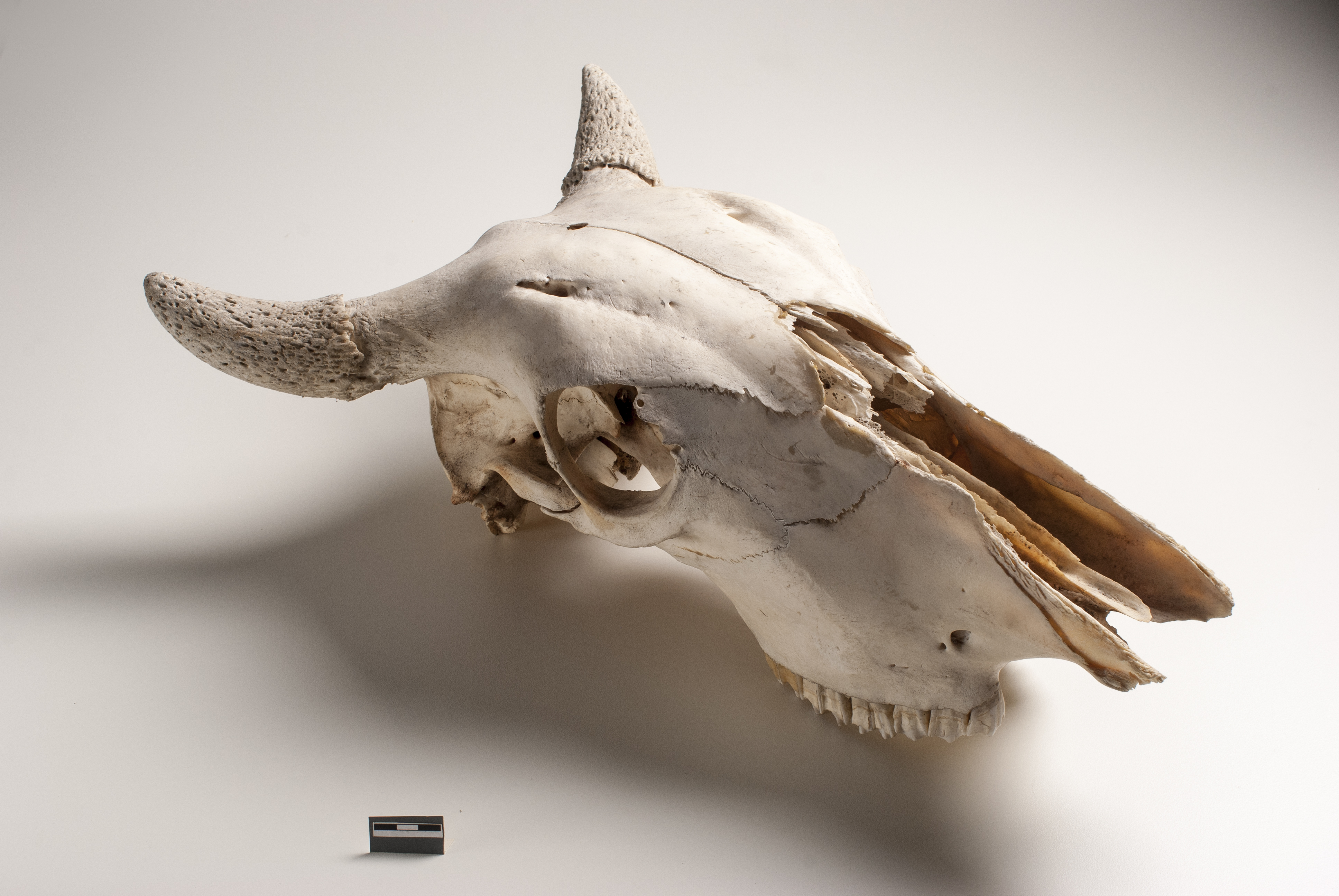 Bovine skull. Bovinae Specimen of bovine skull prepared by the bone maceration technique and on display at the Museum of Veterinary Anatomy, FMVZ USP. This file was published as the result of a partnership between the Museum of Veterinary Anatomy FMVZ USP, the RIDC NeuroMat and the Wikimedia Community User Group Brasil. This GLAM project is reported. Photography: Museum of Veterinary Anatomy FMVZ USP.